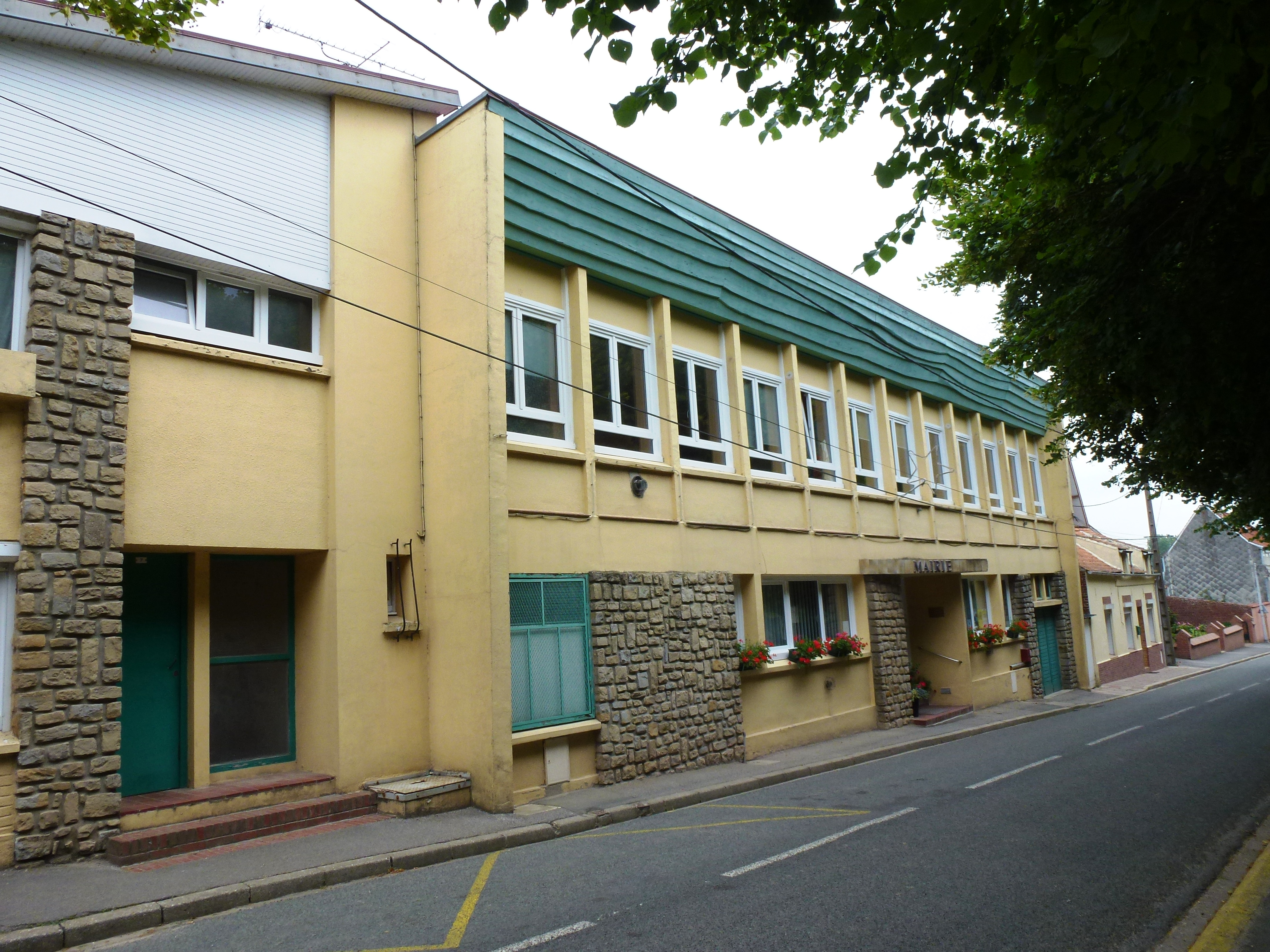 Lières (Pas-de-Calais) mairie